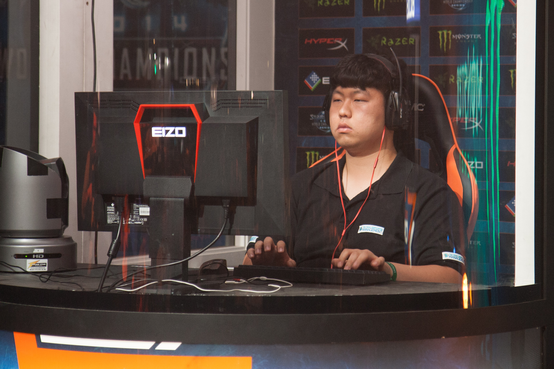 Picture taken at DreamHack Winter 2014 (no idea who this is)